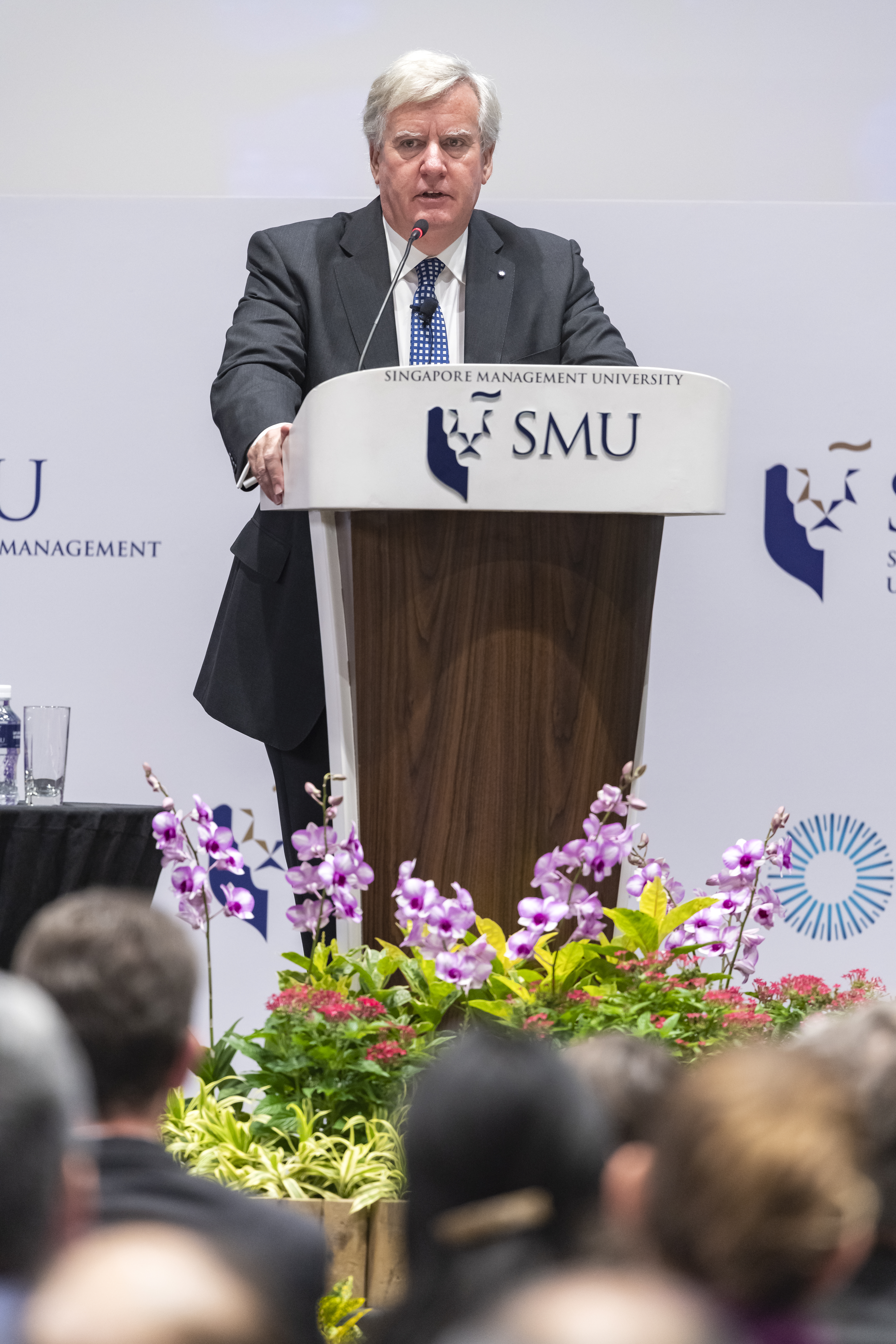 Sir Christopher Greenwood QC Singapore Management University School of Law HSF Lecture 2018